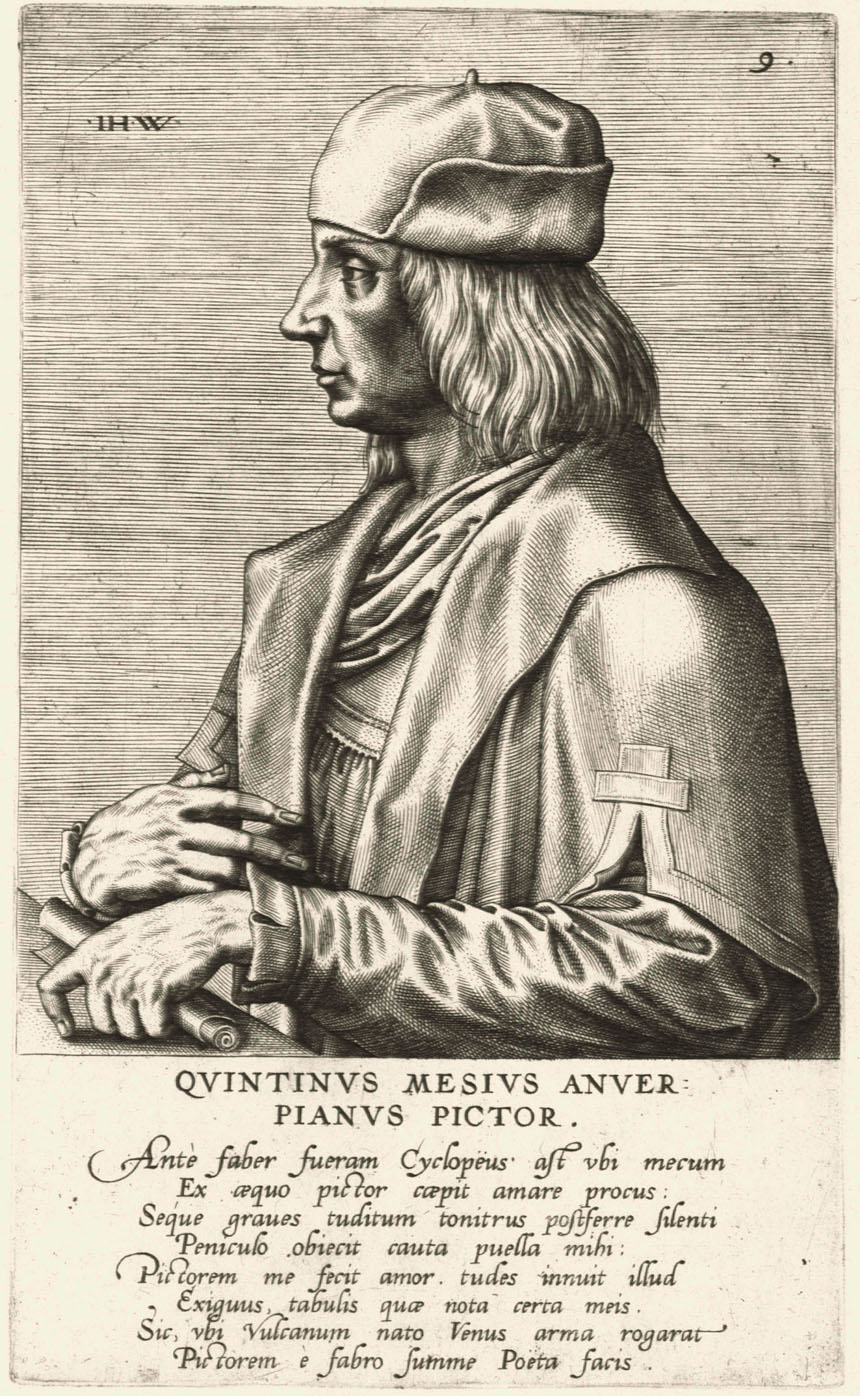 Portrait of Quinten Massijs (I) attributed to Jan Wierix, engraving, 1572, from the Pictorum aliquot Germaniae Inferioris Effigies by Dominicus Lampsonius